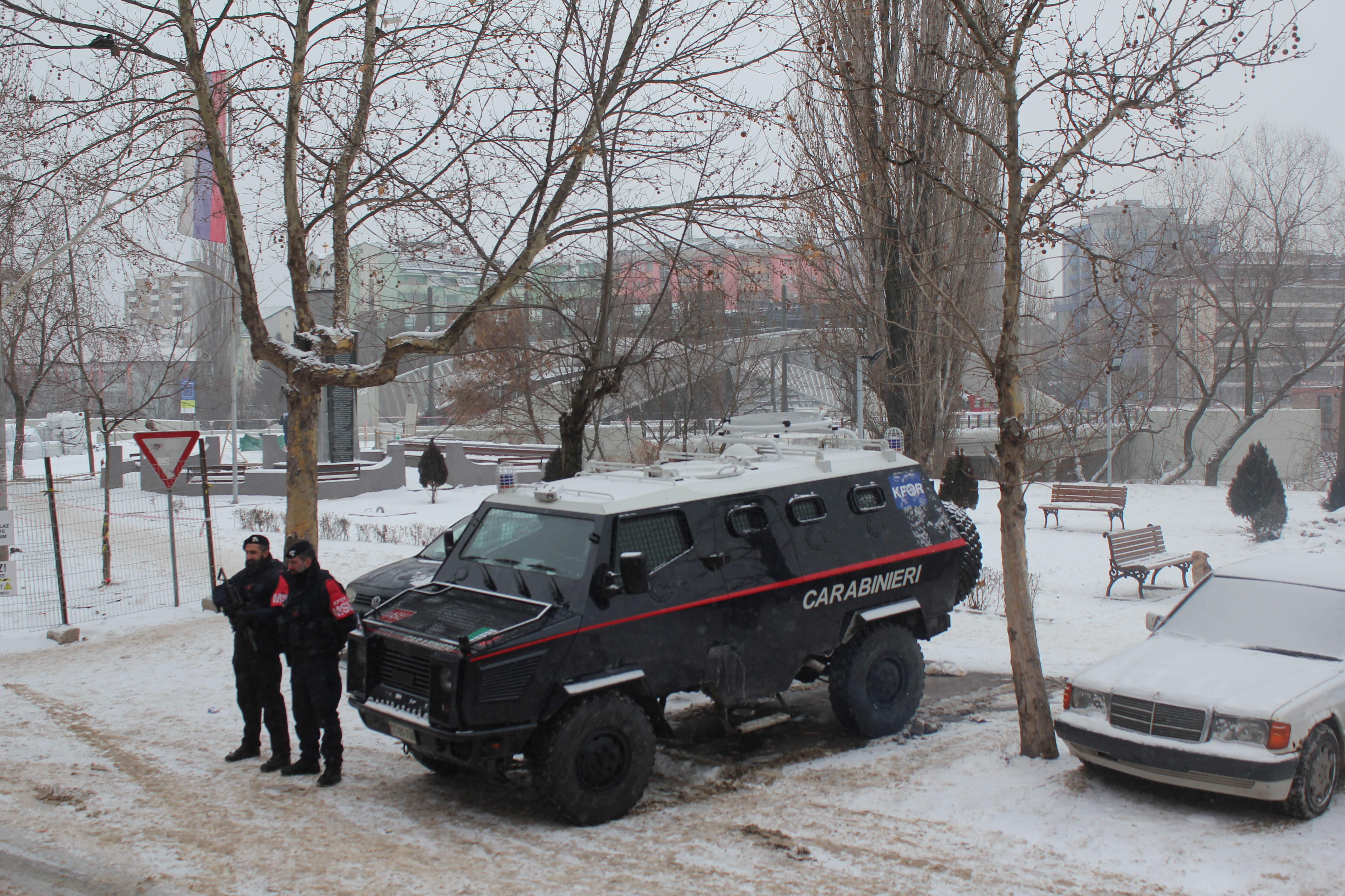 Multinational Specialized Unit Carabinieri Patrol in Mitrovica, Kosovo. Year 2017